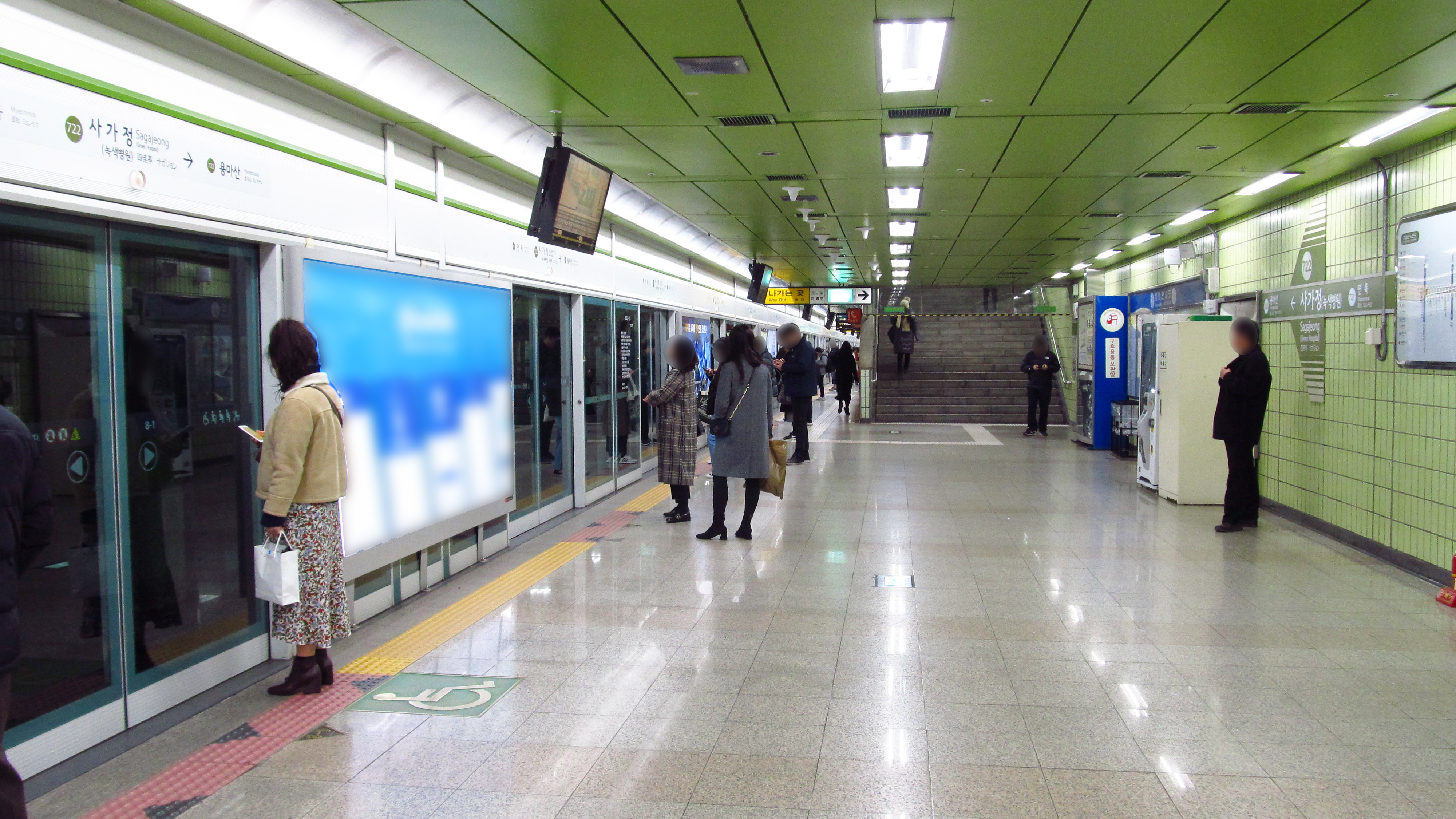 The platform at Sagajeong Station on Seoul Subway Line 7 in Jungnang-gu, Seoul, Republic of Korea(South Korea)